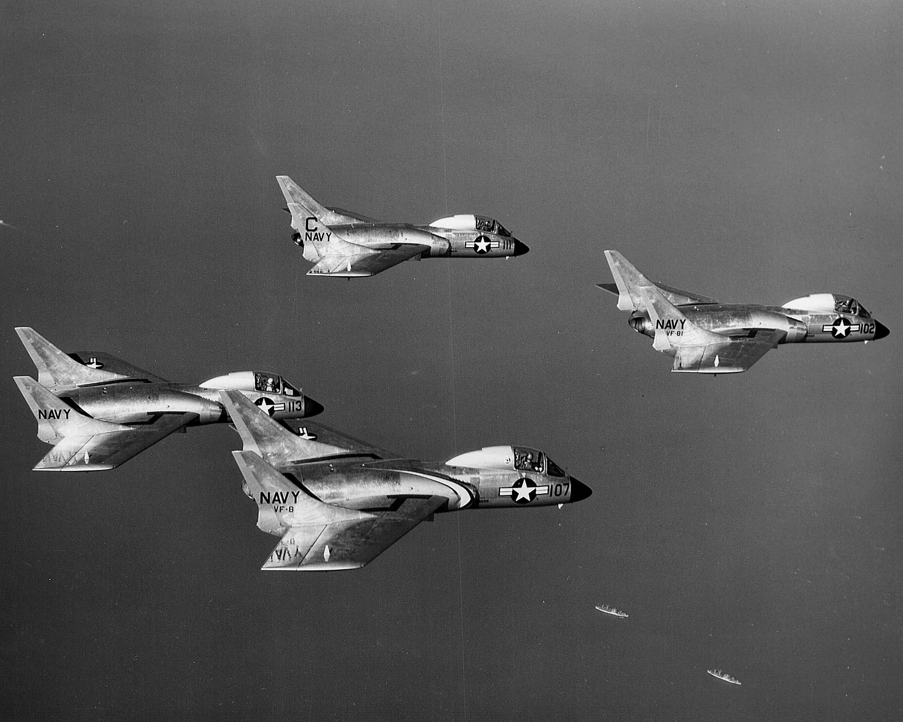 Four U.S. Navy Vought F7U-3 Cutlass of Fighter Squadron VF-81 "Waldomen" in flight near Naval Air Station Norfolk, Virginia (USA).